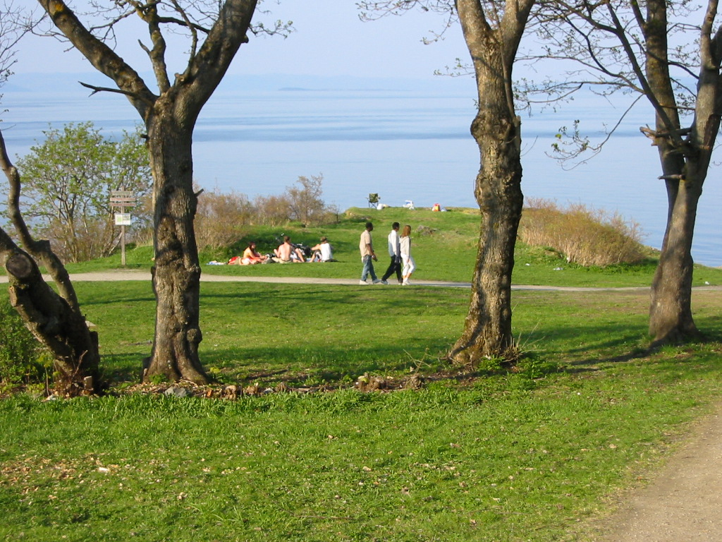 Ladestien (Lade trail) in Trondheim, on the warm evening of May 7. The island in the background is Tautra. Picture taken by myself. Orcaborealis.